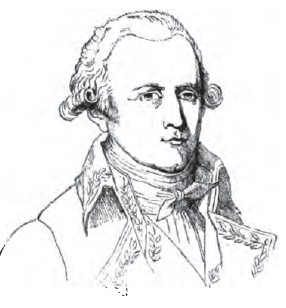 An engraving of Jean-Baptiste Lamarck at 35 years of age.